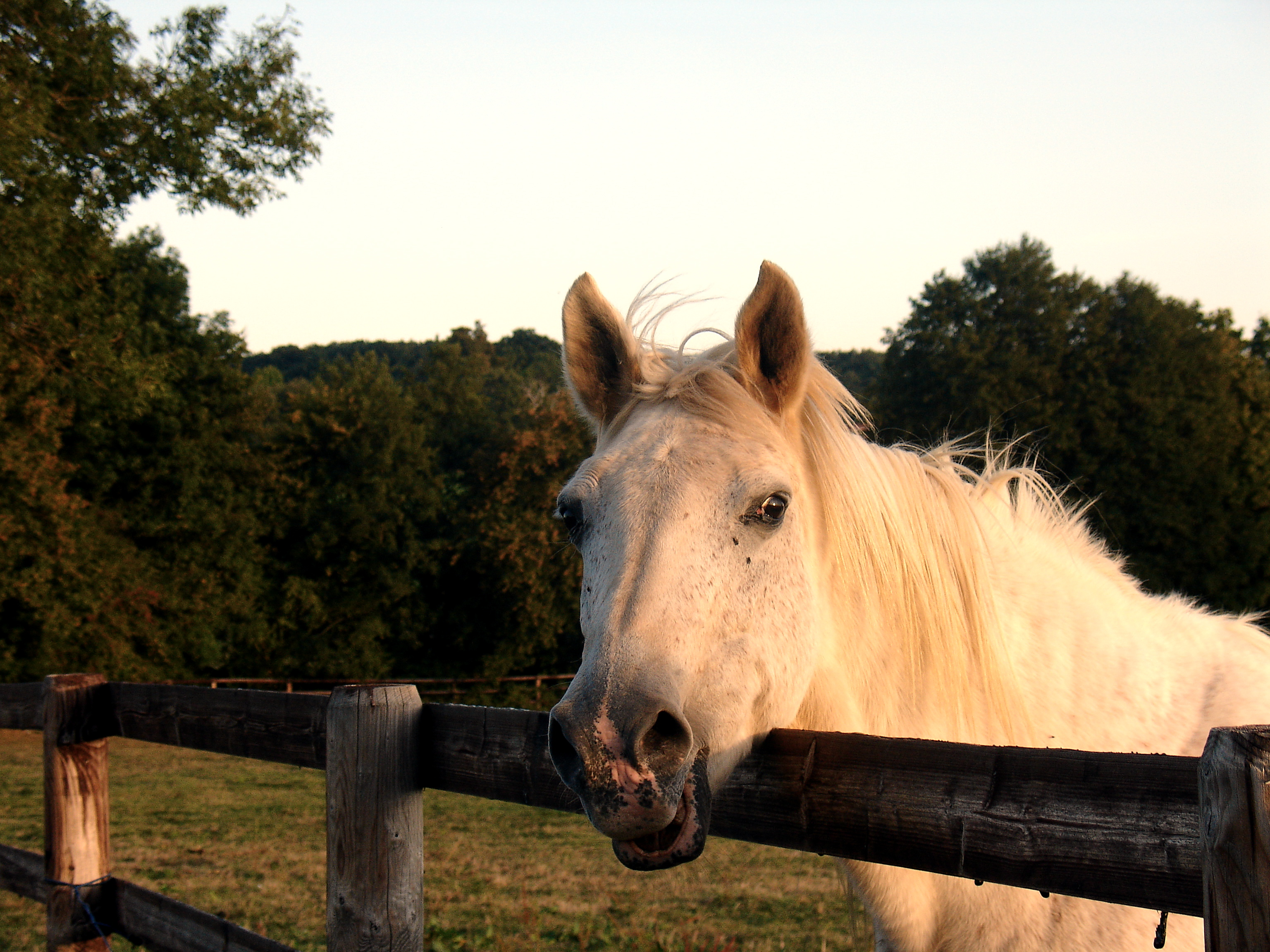 Messagère, Anglo-arab mare